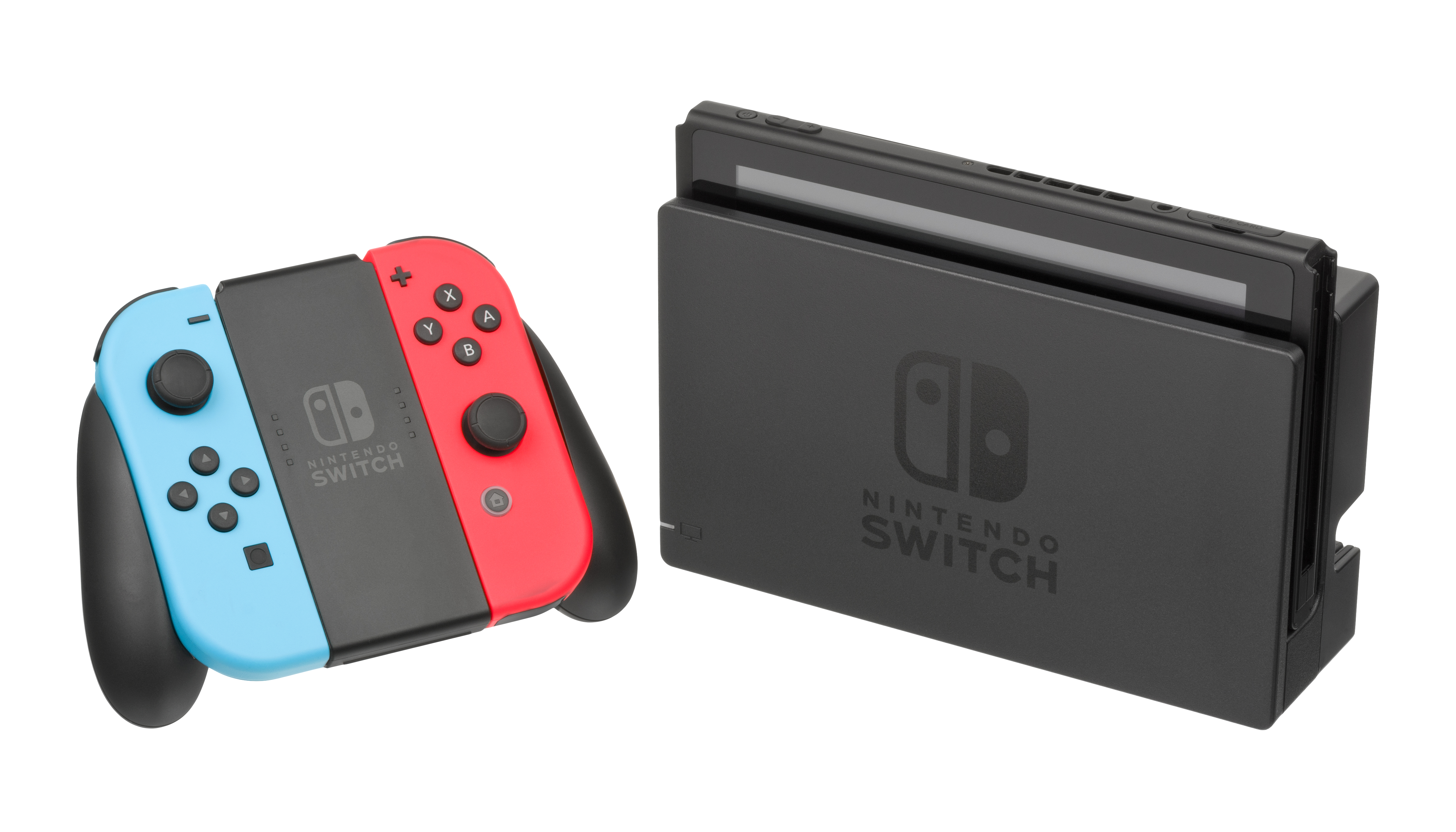 The Nintendo Switch, a hybrid portable/home console released by Nintendo in 2017. It is shown here in the docked/home mode, with the controllers detached from the main unit and in the included grip.